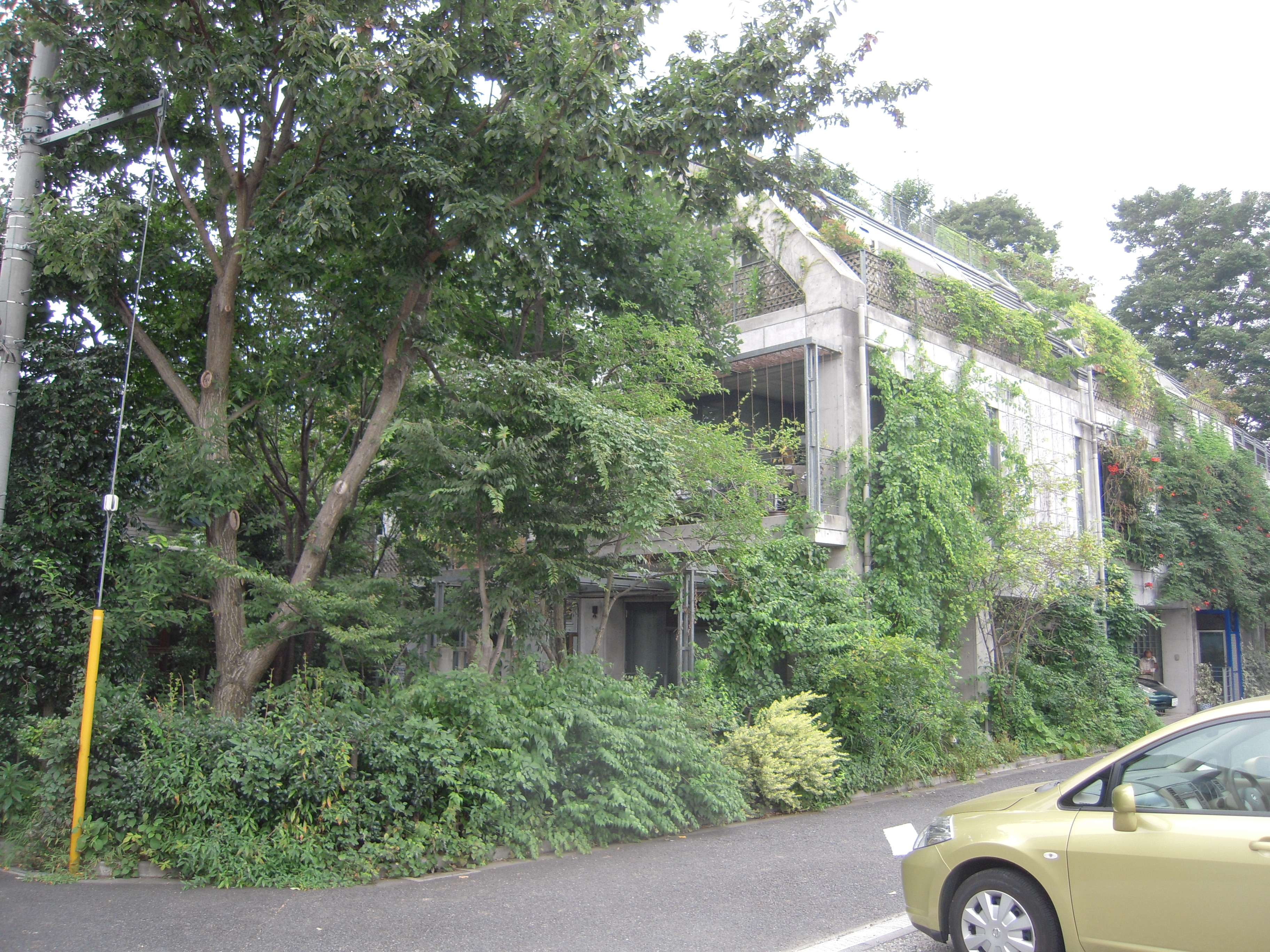 Kyodo no mori